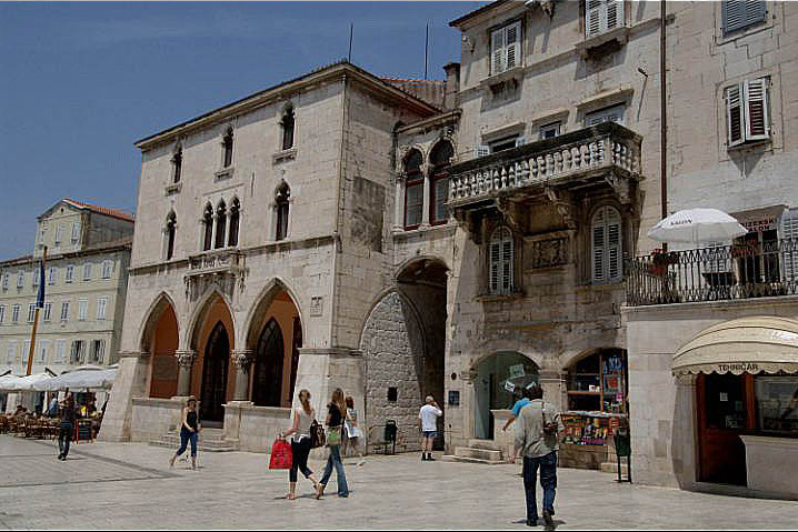 BUSINESS CENTER OF THE TOWN WITH THE TOWN HALL AND THE VILLA CAMBI (RIGHT) FROM THE 15TH C.